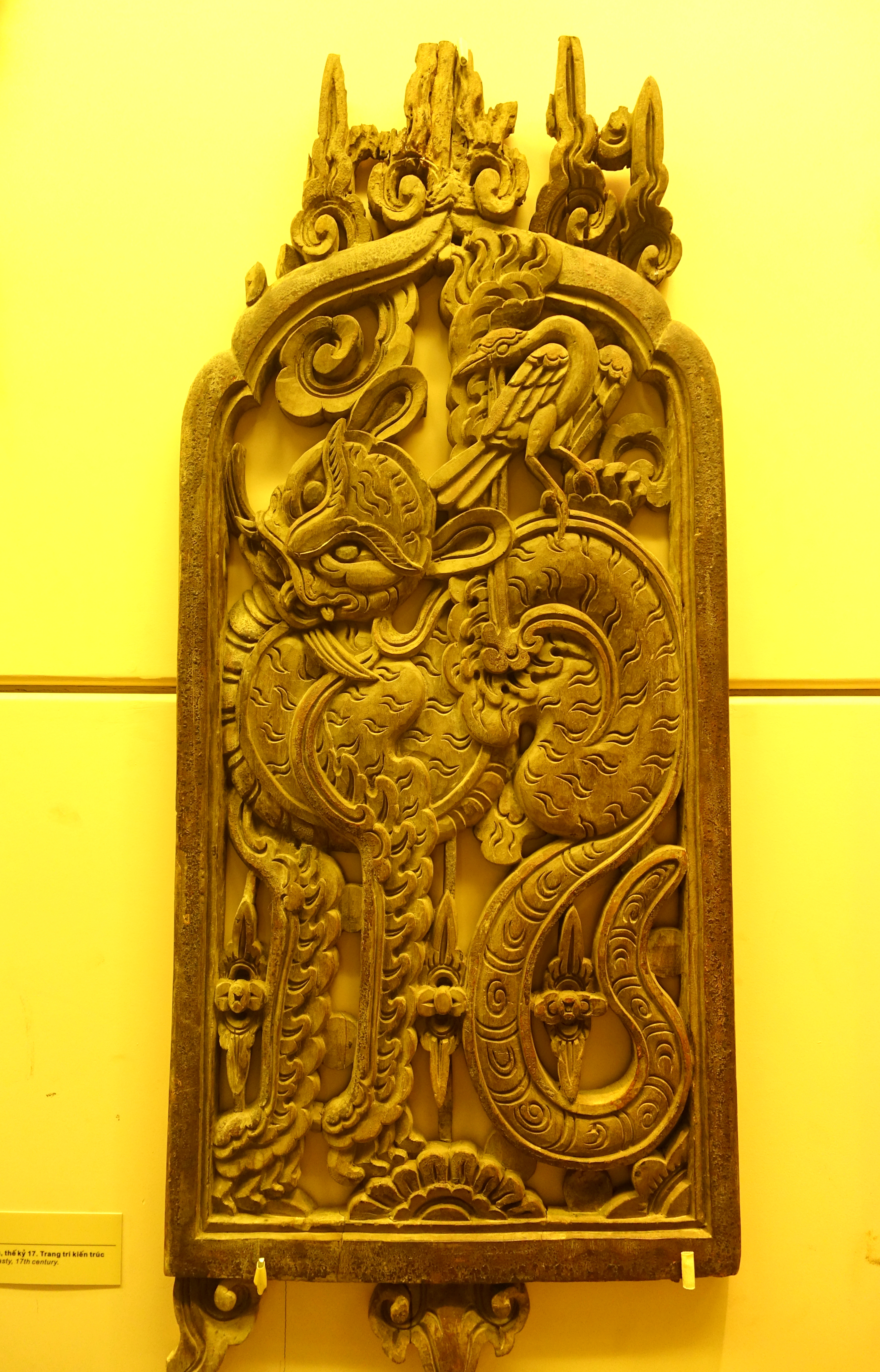 Exhibit in the National Museum of Vietnamese History, Hanoi, Vietnam. This artwork is old enough so that it is in the public domain.